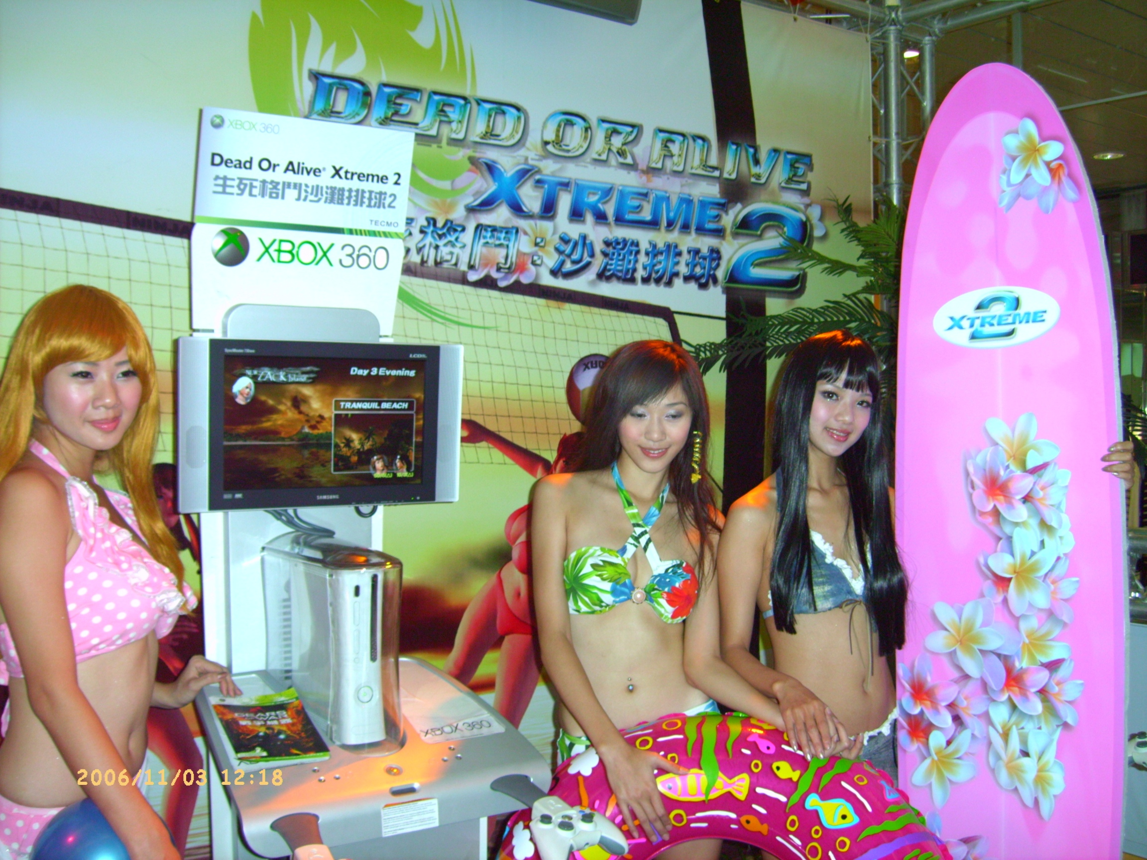 DOA2X Show Girls at X06 Taiwan DOA2X Exhibition Booth.